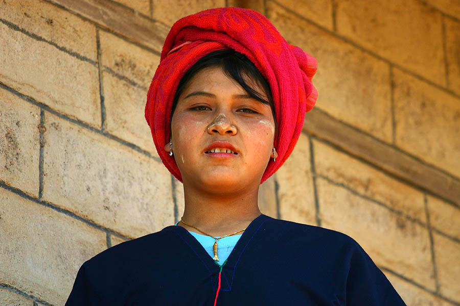 A Pa-O tribal woman near Kalaw, Shan State, Myanmar. Pa-O is one of Shan State's many tribal groups.